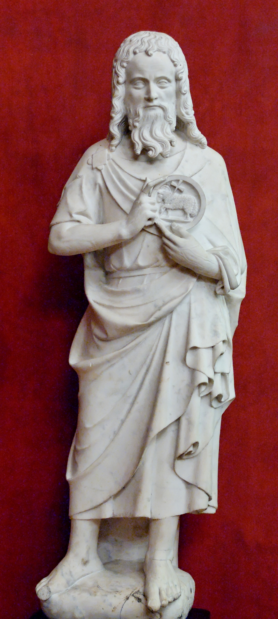 St. John the Baptist. Stone, Paris, middle of the 14th century.